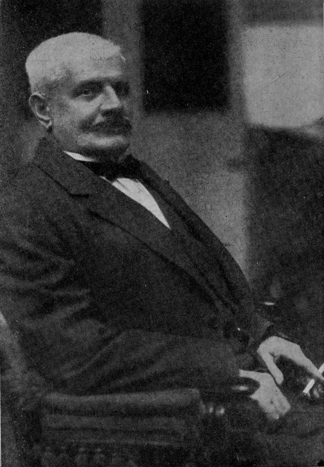 Dr Karol Rychliński